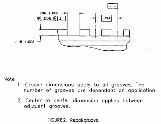 Side profile showing slot spacing of Picatinny Rail type rifle sight mounting system.